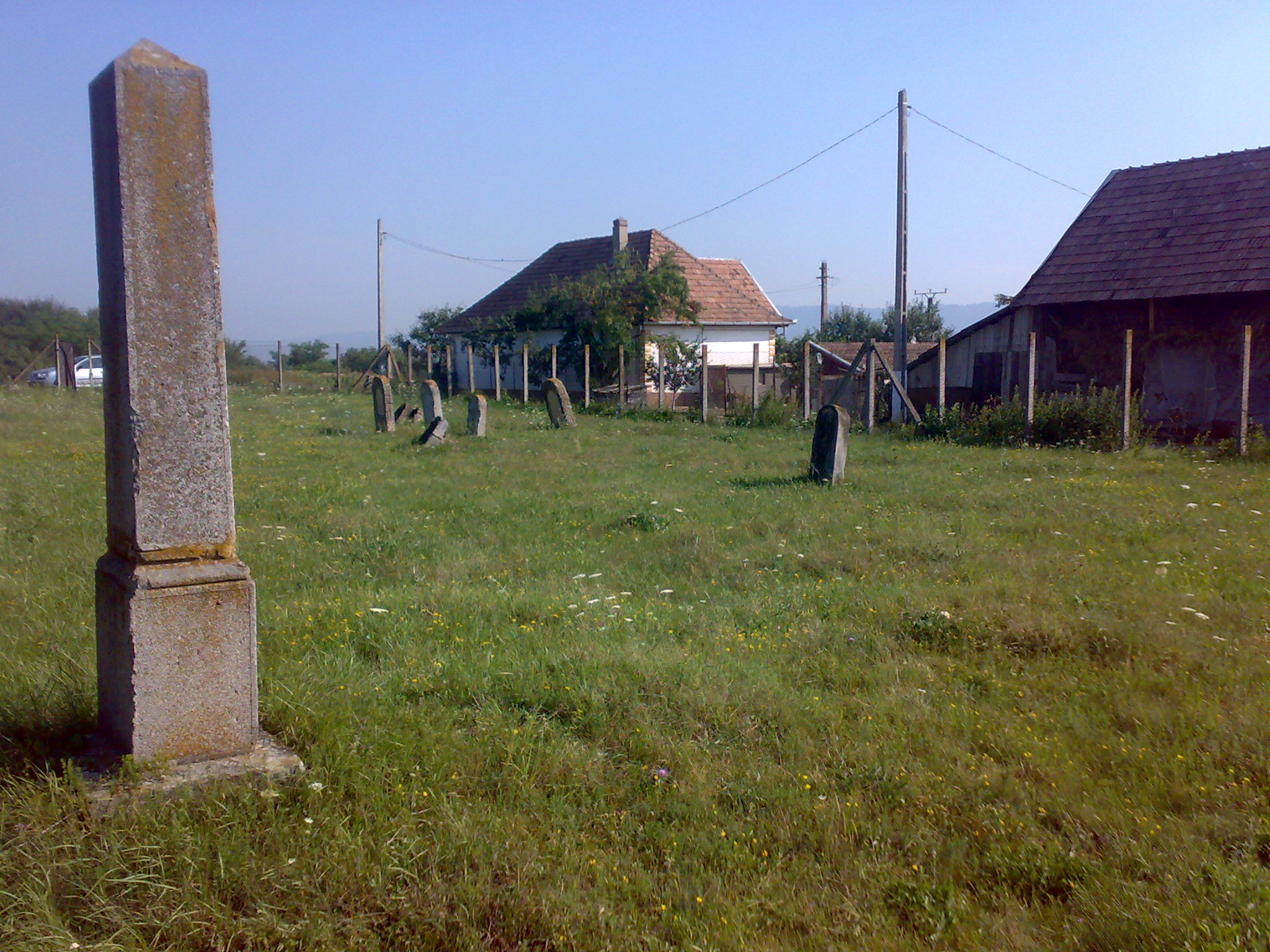 The Hungarian Jewish cemetery in Luncani, Cluj.